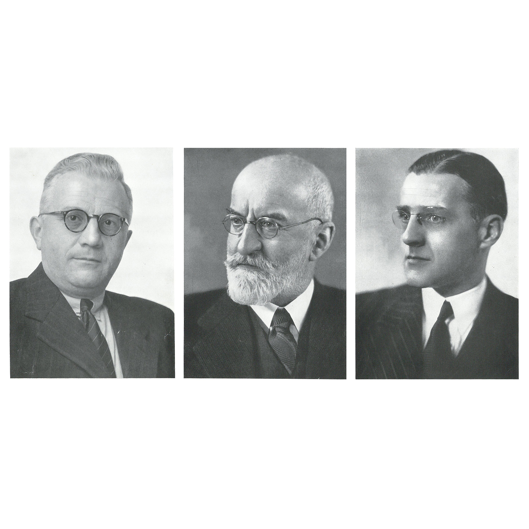 Leuthold, Rieser (senior), Rieser (junior)